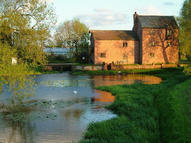 Alders Mill. Alder Mill is located on the River Anker near Pinwall, just outside of Atherstone in the United Kingdom. It is just on the Warwickshire side of the Warwickshire and Leicestershire boundary.